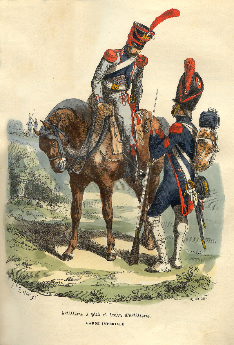 Soldier from the artillery train and foot artillerist from the Imperial Guard of the Grande Armée. From book of P.-M. Laurent de L`Ardeche «Histoire de Napoleon», 1843